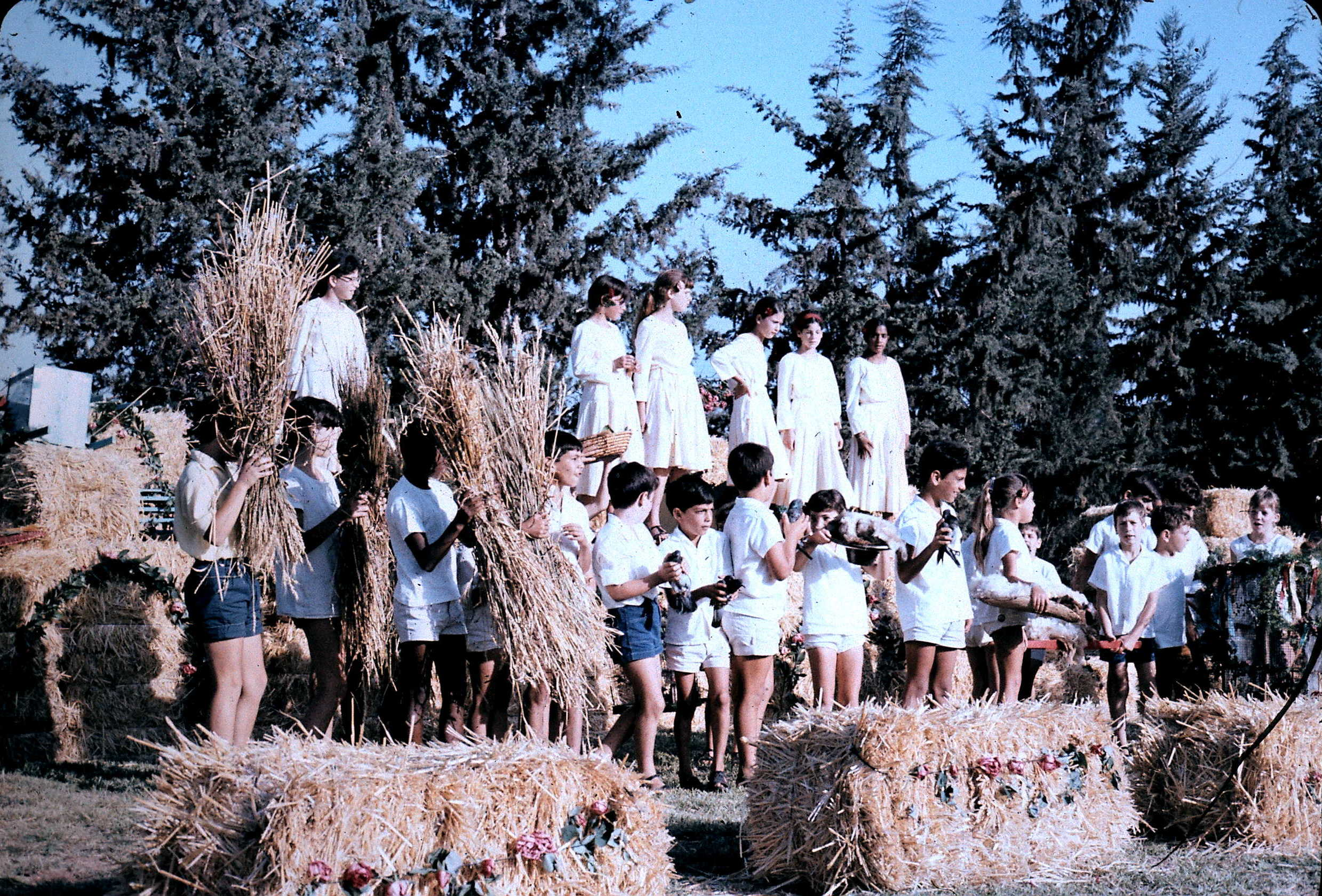 First Fruits Ceremony, Jewish holidays.